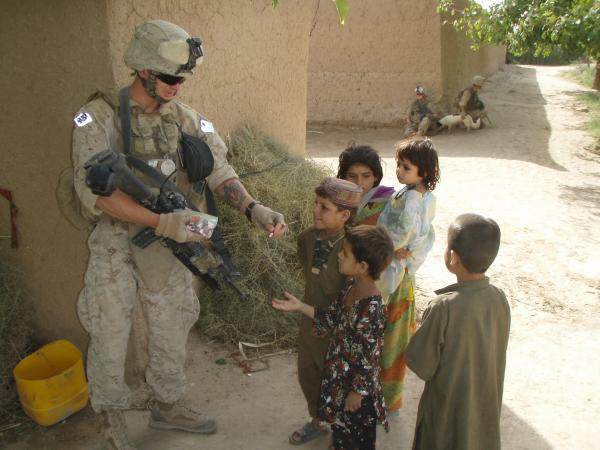 A U.S. Marine handing out candy to the local Afghan children while conducting counter-insurgency operations in Marjah, Afghanistan 2010.